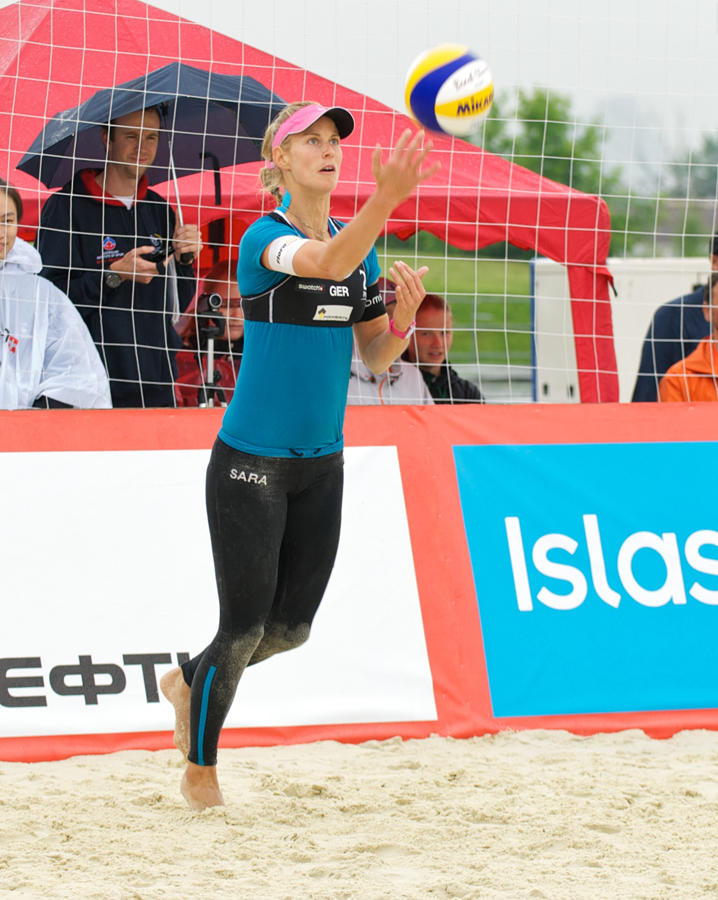 Grand Slam Moscow 2012